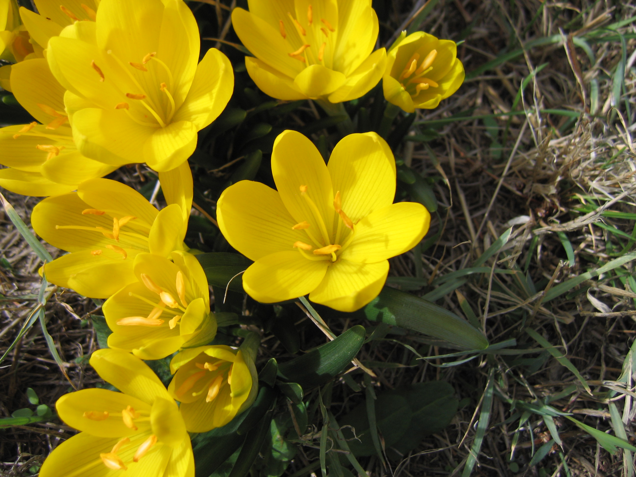 Sternbergia lutea, Amaryliidae, near Spoleto, Italy